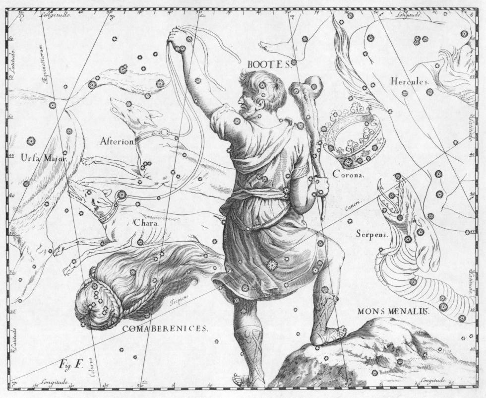 The Boötes and Coma Berenices constellations. The view is mirrored following the tradition of celestial globes, showing the celestial sphere in a view from "ouside"